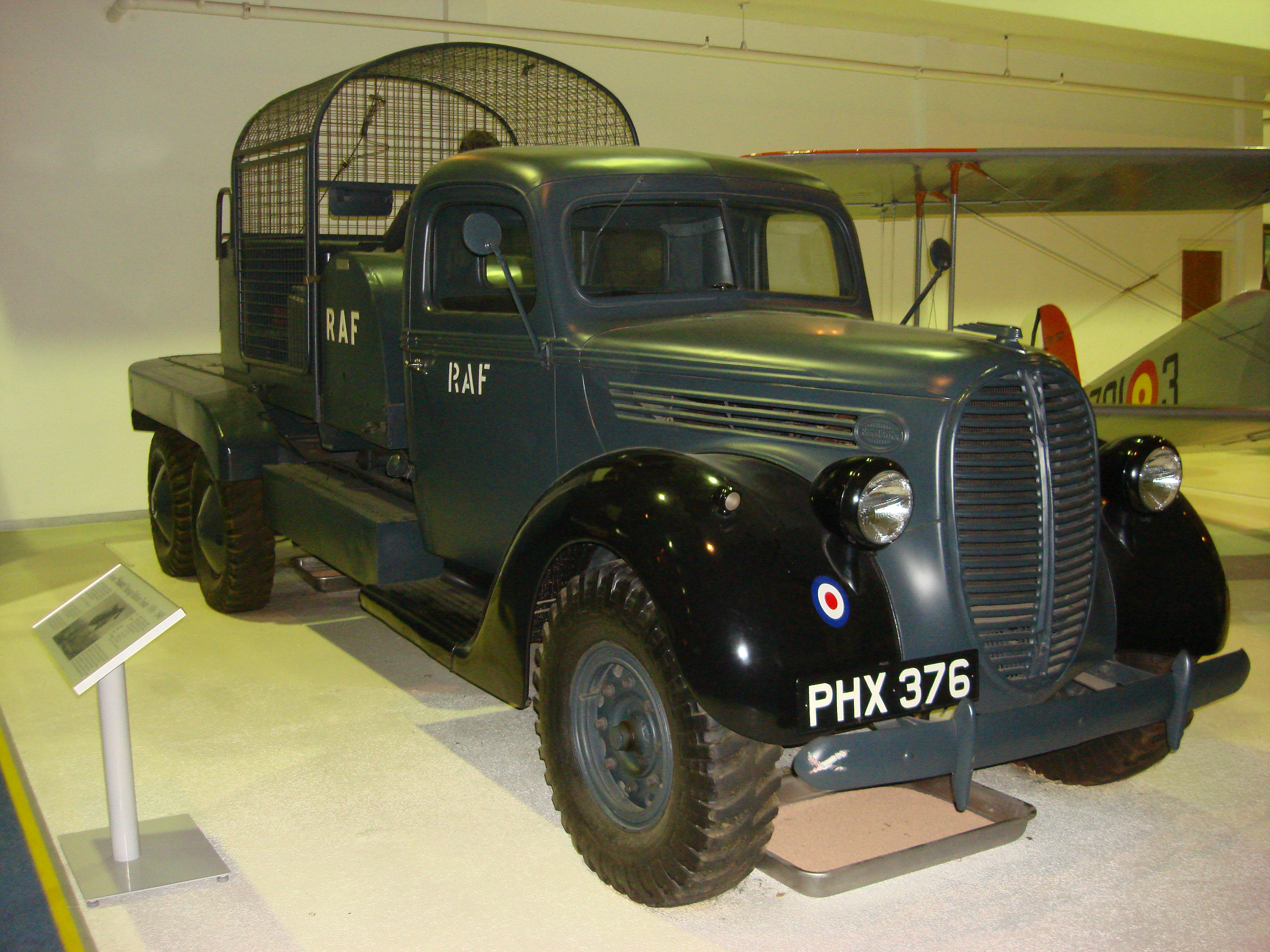 Fordson Sussex Barrage Balloon Tender 1938-1945, at the RAF Museum, London.